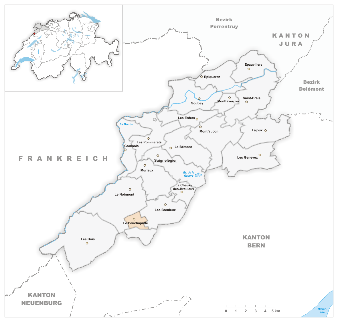 Municipality Le Peuchapatte